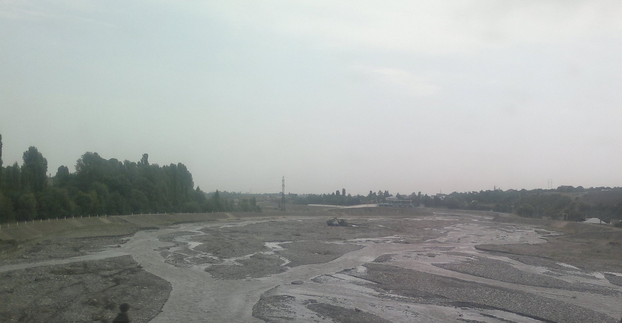 View of the Gudialchay river downstream from a bridge in Guba. Azerbaijan